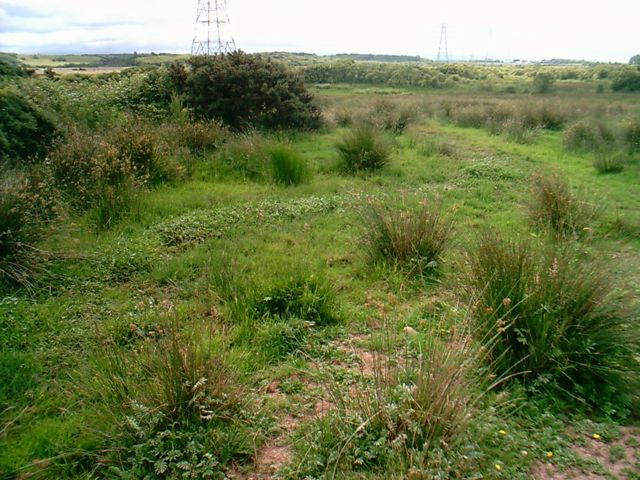 Cors Erddreiniog. A view across Cors Erddreiniog from near Capel Mawr indirection of Llyn yr Wyth-eidion.